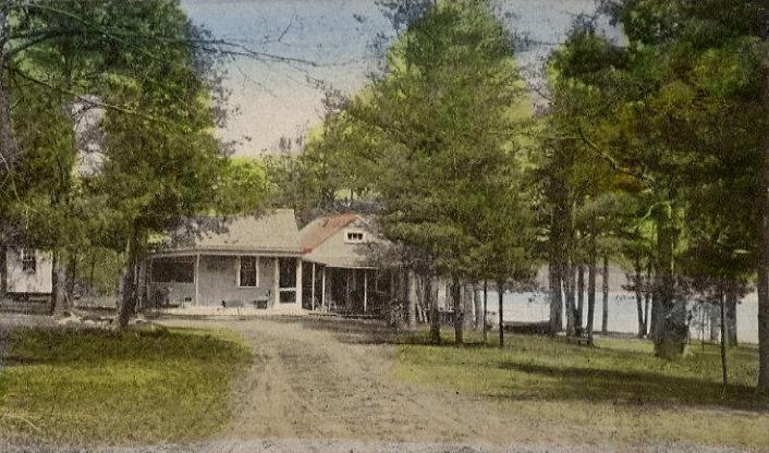 The Camps, Milton, NH; from a 1910 postcard.